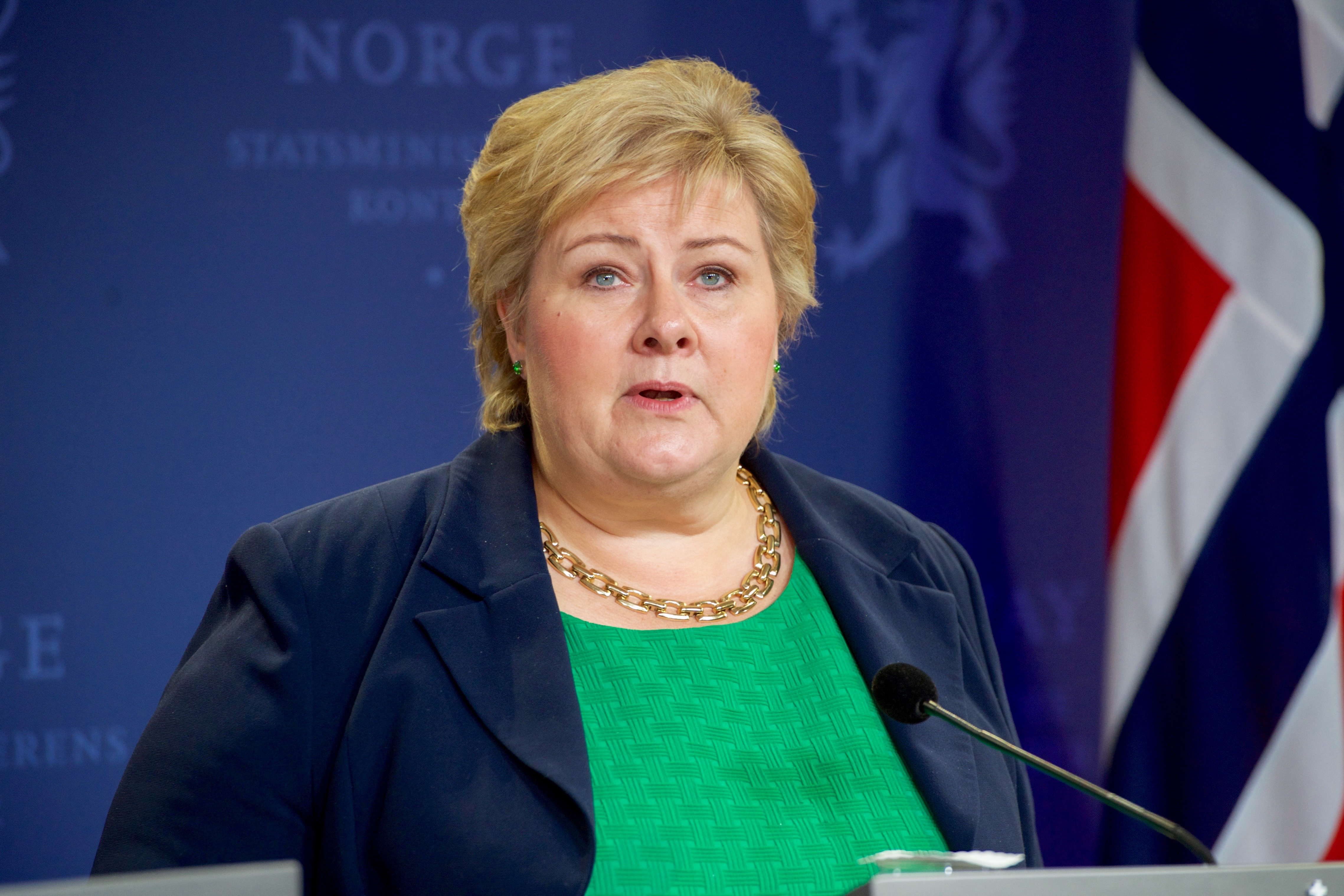 Norwegian Prime Minister Erna Solberg, standing next to U.S. Secretary of State John Kerry, addresses reporters during a news conference on June 15, 2016, at the Prime Minister's Office Complex in Oslo, Norway, following a bilateral meeting and amid a visit during which he will also meet with King Harald and Foreign Minister Borge Brende. [State Department photo/ Public Domain]